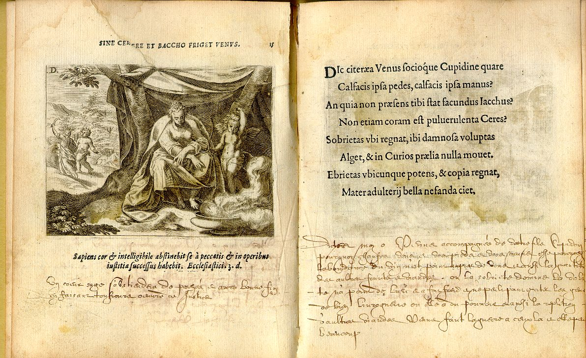 double page with Emblem from Mikrokosmos = Parvus mundus. Emblems, engraved by Gèrard de Jode, with verses by Laurentius Haechtanus [Haecht Goidtsenhoven, Laurens van]. Antwerpen: de Jode, 1579. This is emblem # 15: Sine Cerere et Baccho friget Venus. Translation of explanation: Say, Cytherean Venus with your Cupid: Why are you are warming your hands and your feet? Is it because eloquent Iacchos is not there to help you? And dusty Ceres is not around either? Where sobriety reigns, pernicious lust freezes and does not start wars against the Curii [i.e. moderate men]. Wherever drunkenness reigns and abundance, the mother of adultery wages abominable wars.